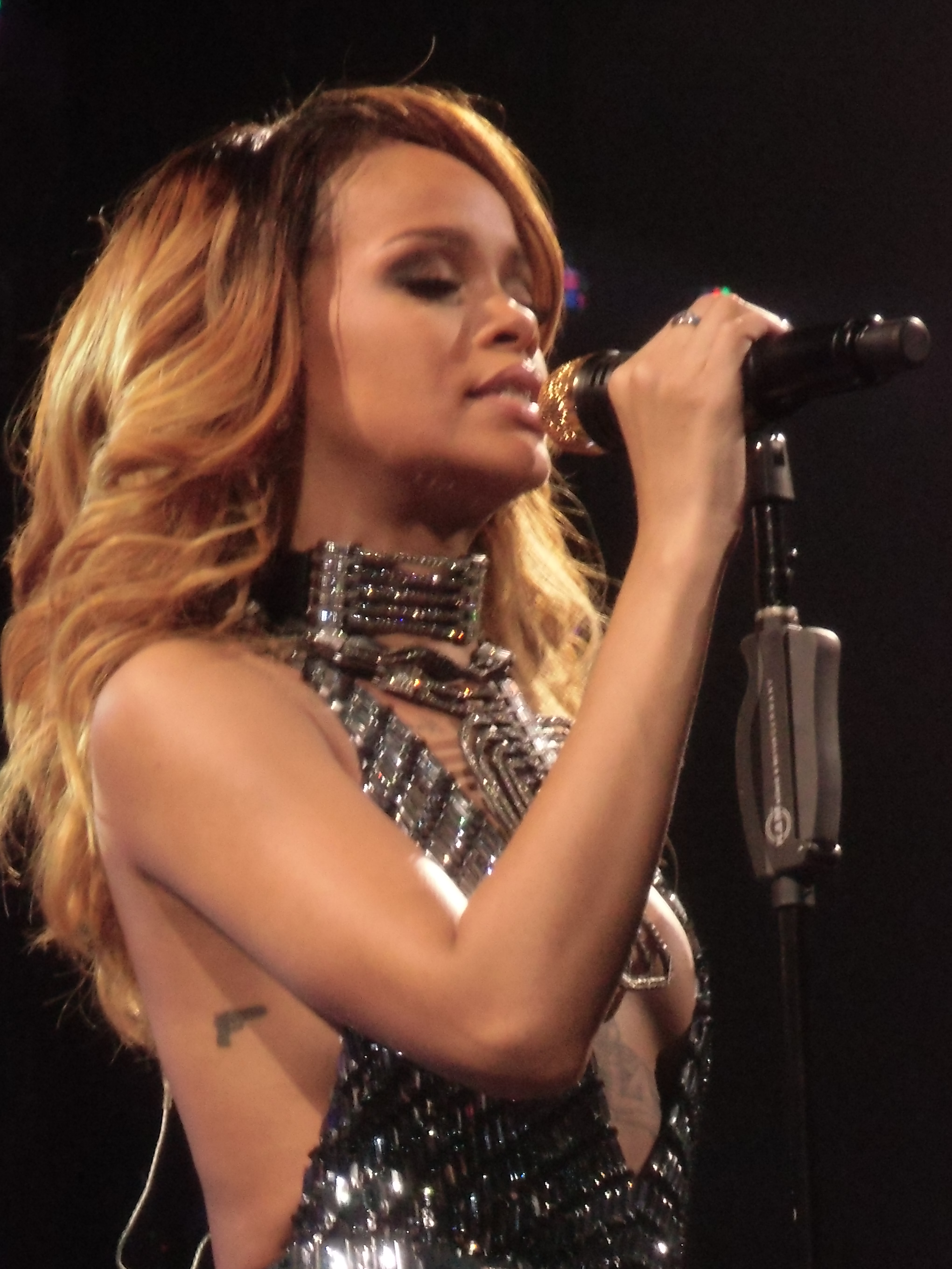 Rihanna performing at her Diamonds World Tour in Cologne on June 26, 2013